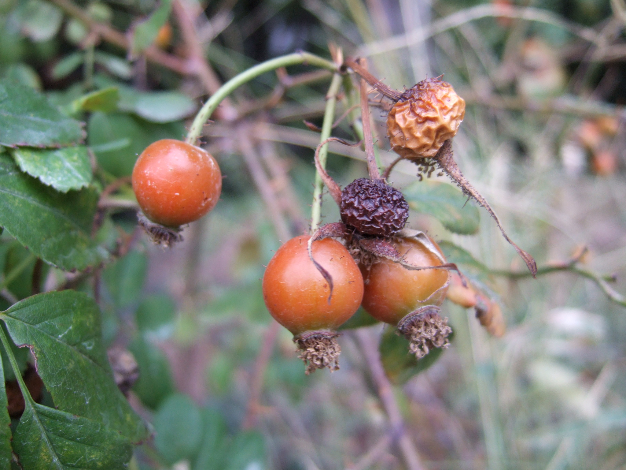 Rosa virginiana rosehips